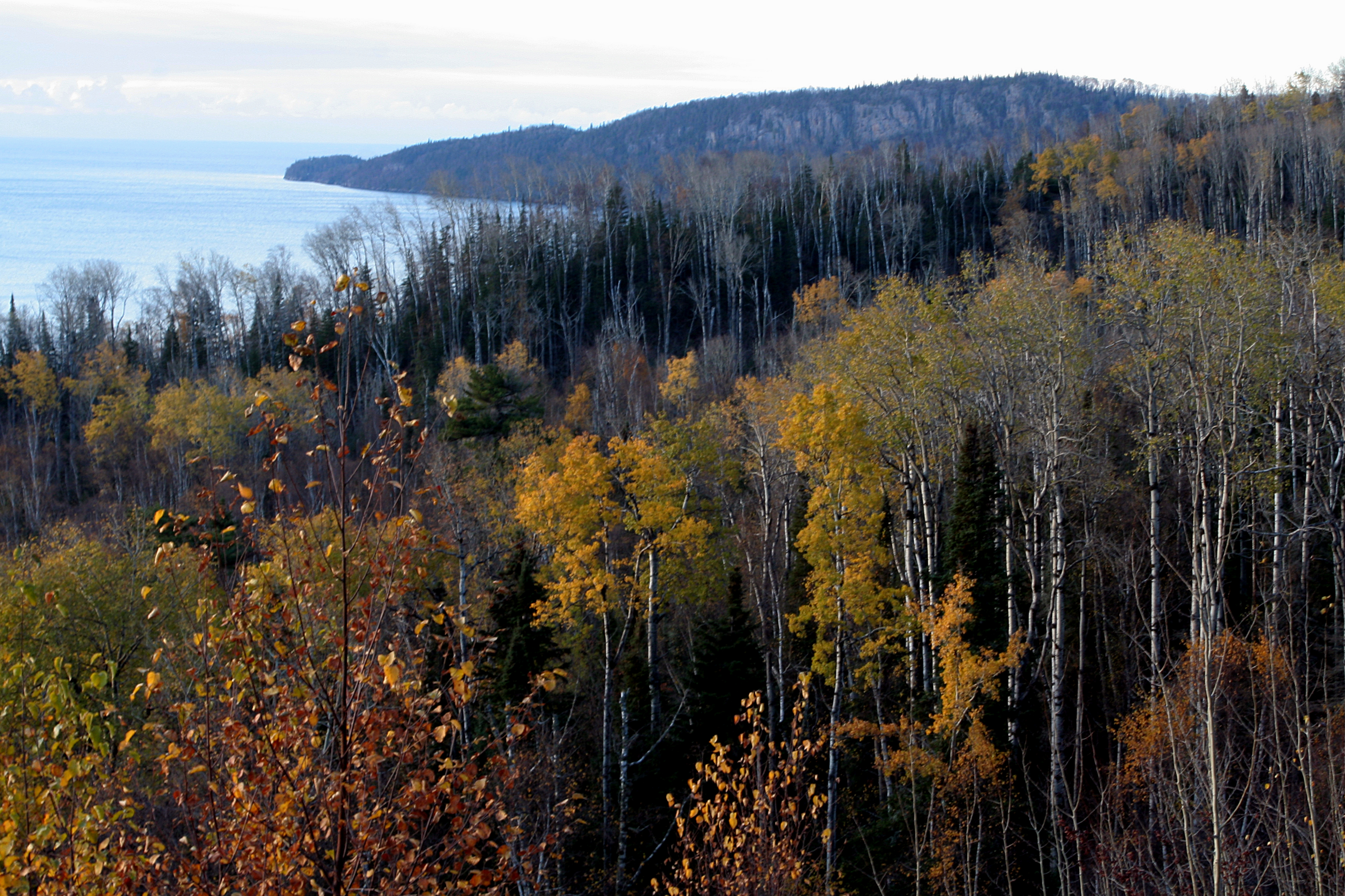 North Shore of Lake Superior at Grand Portage, Minnesota.